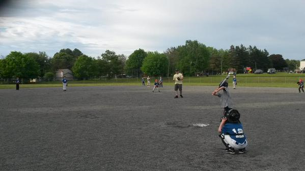 game